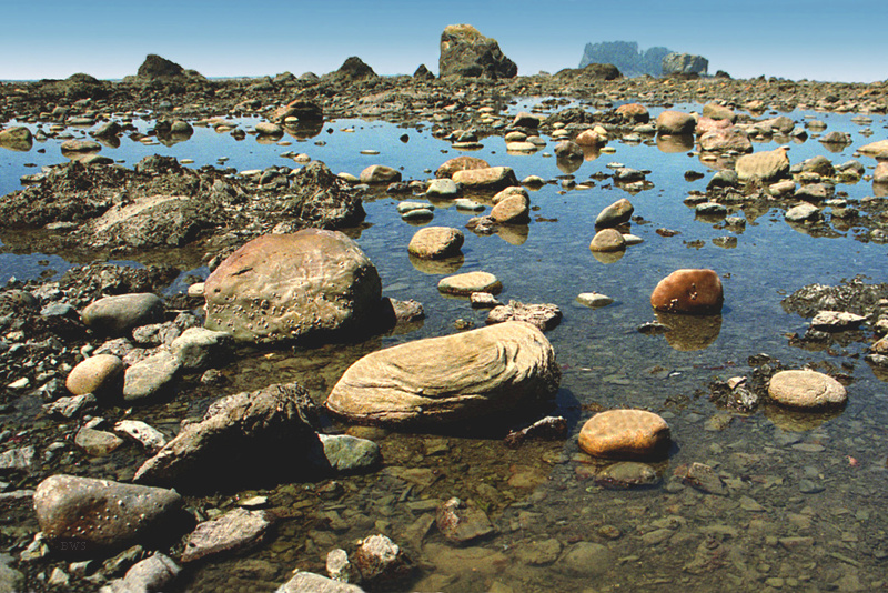 Olympic National Park, Washington, USA, tidepools